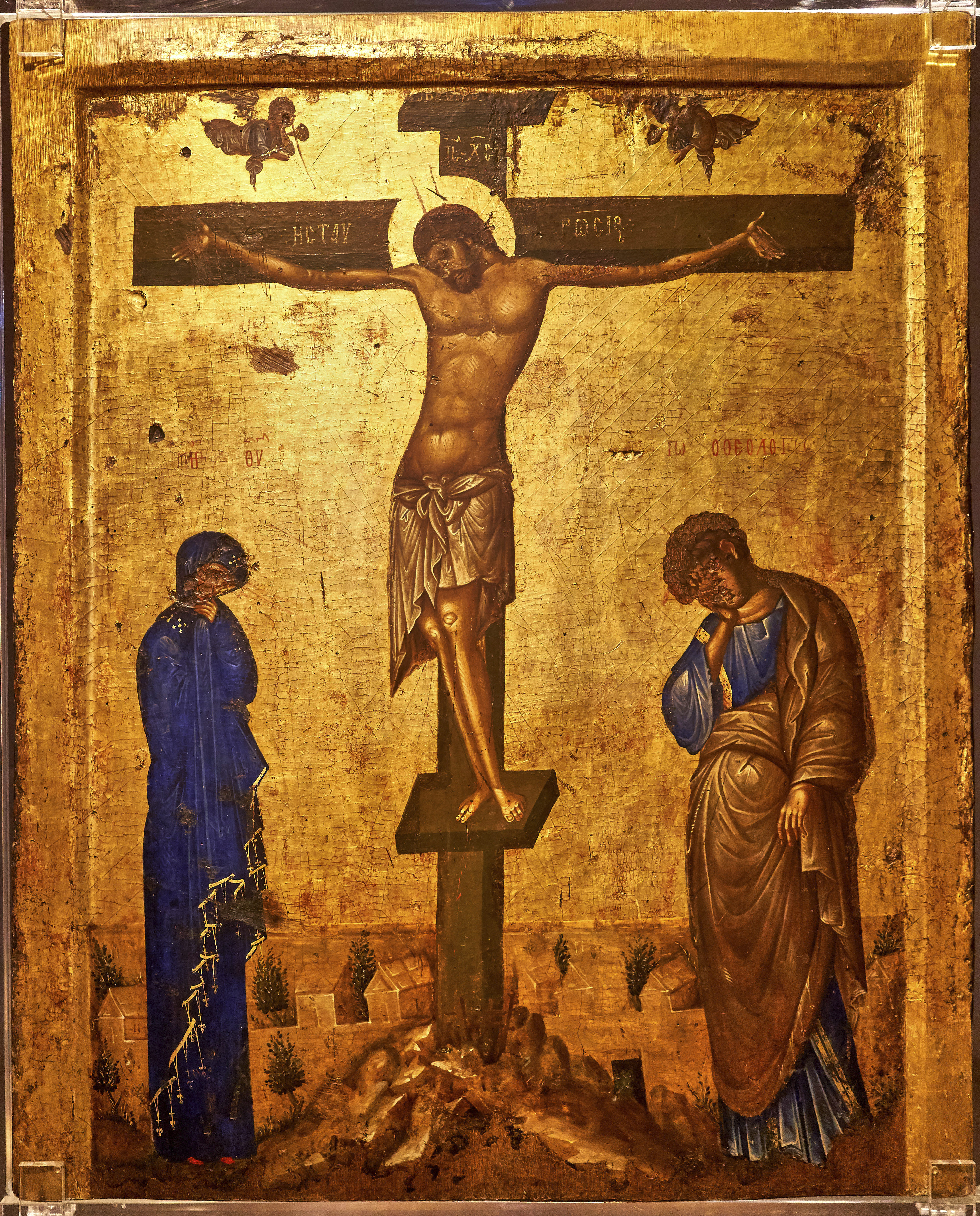 The back side of a double-sided icon depicting the Crucifixion. Product of a Constantinople icon-painting workshop. From Thessaloniki (church of Saint Nicholas). 14th c. Accession number: BXM 1354. Byzantine and Christian Museum. Athens, Greece. Text: Based on the museum inscription.